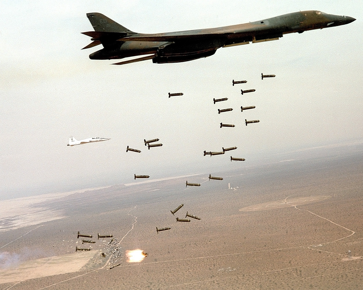 Bombs away! FILE PHOTO -- A B-1B Lancer unleashes cluster munitions. The B-1B uses radar and inertial navigation equipment enabling aircrews to globally navigate, update mission profiles and target coordinates in-flight, and precision bomb without the need for ground-based navigation aids. (U.S. Air Force photo)